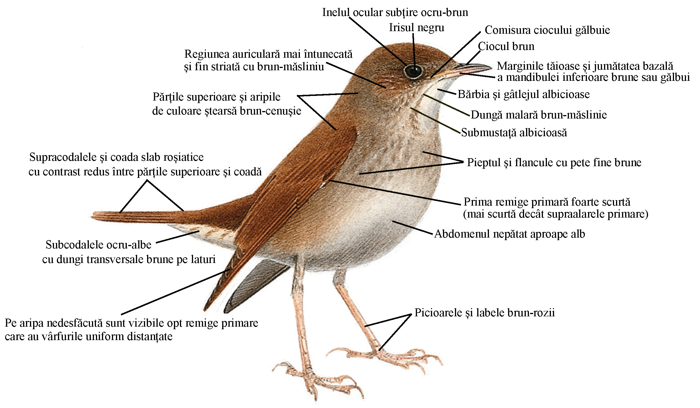 Luscinia luscinia adult